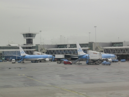 Amsterdam-Schiphol Airport.